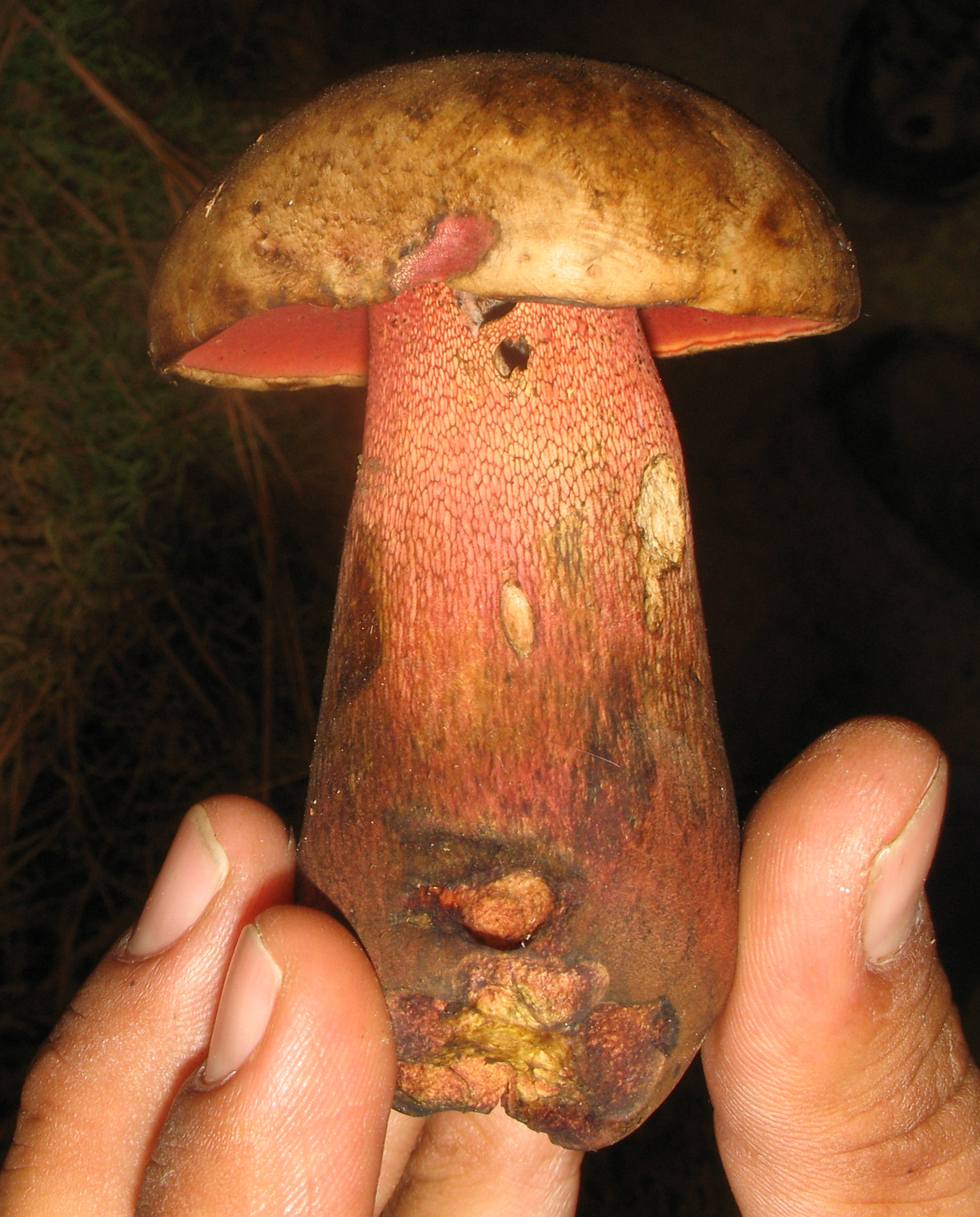 The mushroom Boletus pulcherrimus Theirs & Halling. "Notes: On display at the 11th Annual Fungus Fair in Senguio, Michoacan, Mexico." Original photograph rotated (30 degrees CW) and cropped by uploader.